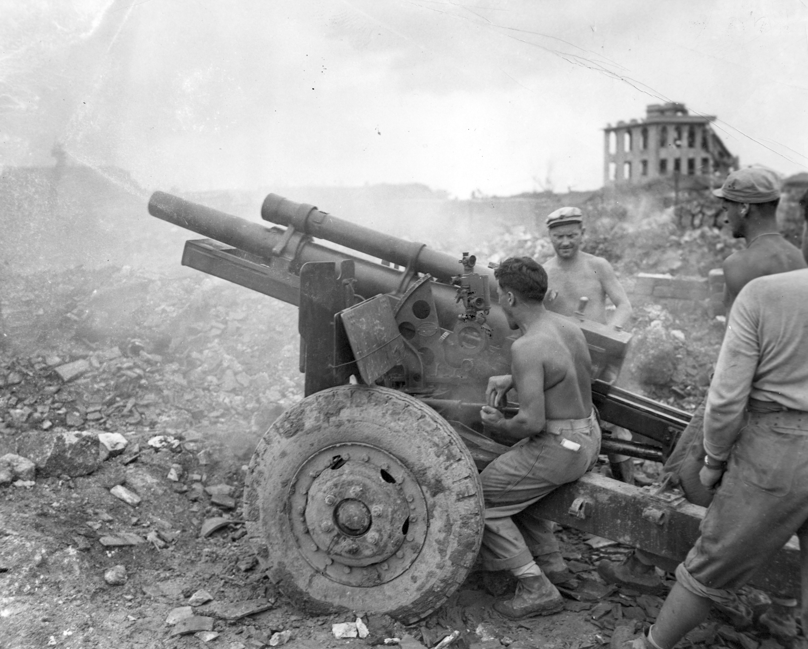 Okinawa – 105mm Howitzer firing in Naha.